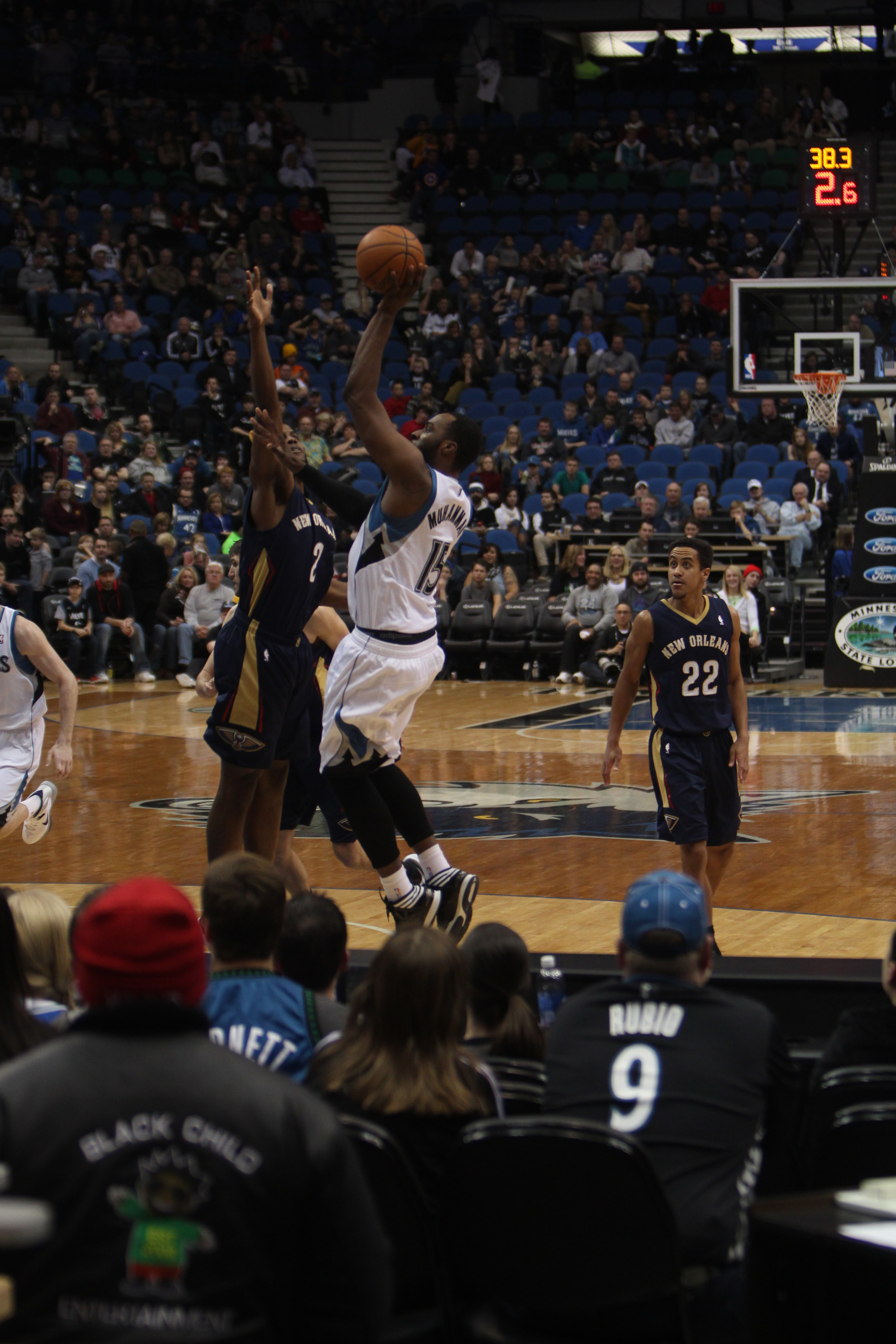 Shabazz Muhammad at the Target Center